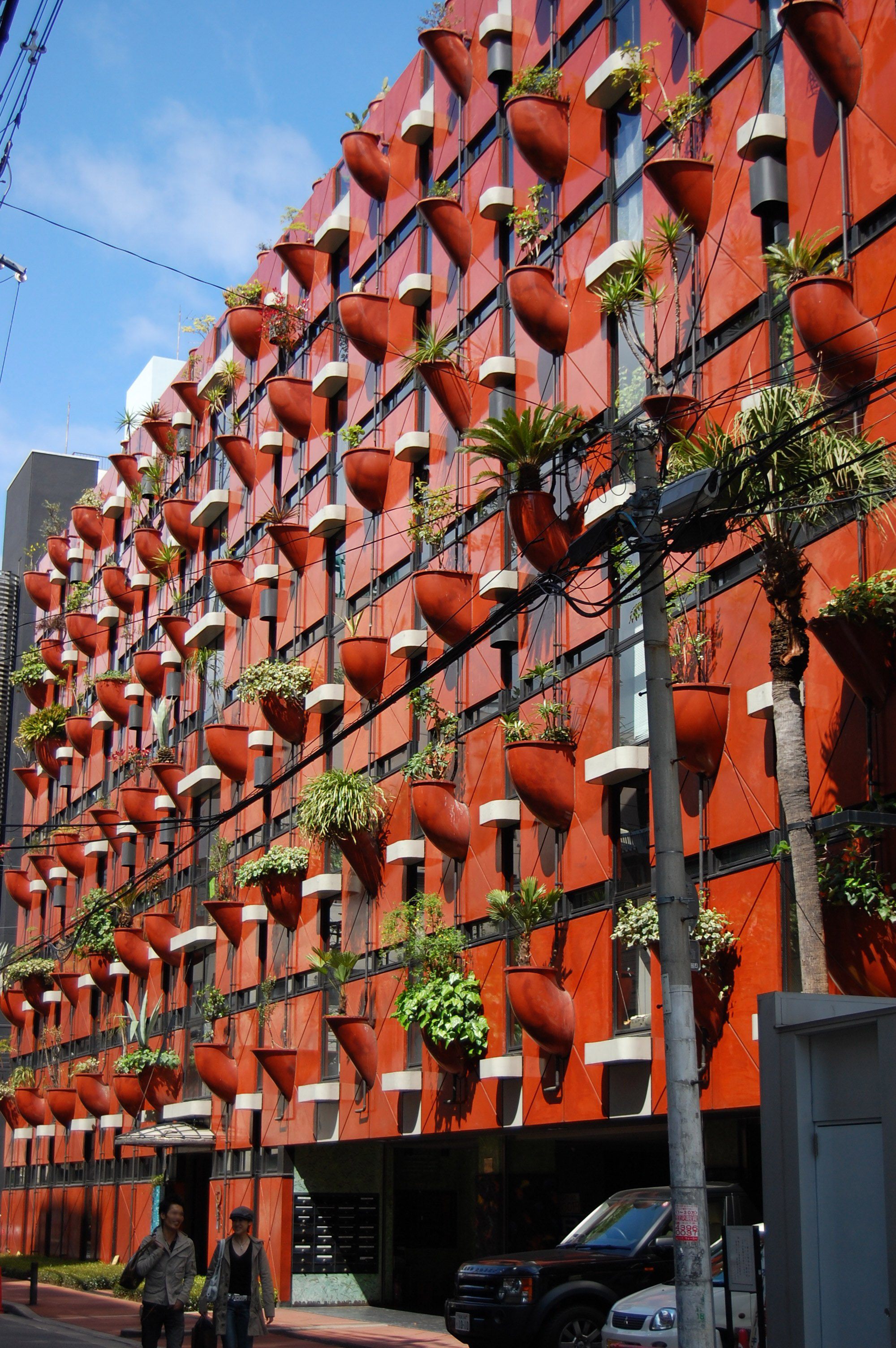 Gaetano Pesce's Organic Building (1993) in Osaka, Japan. The walls of the construction feature extruded pockets with plants, thus creating an impromptu vertical garden.